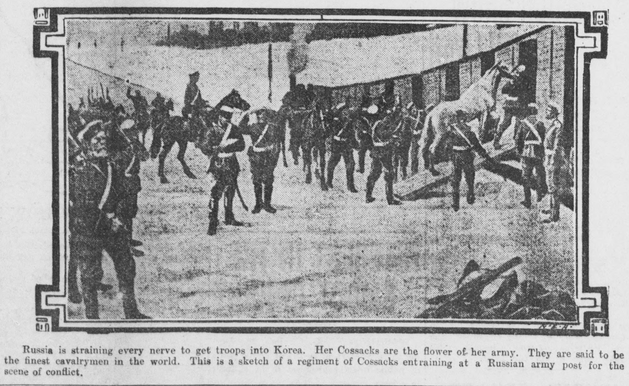 in1904, these Cossack troops of the Imperial Russian Army were training prior to being sent off to fight in the Russo-Japanese War.